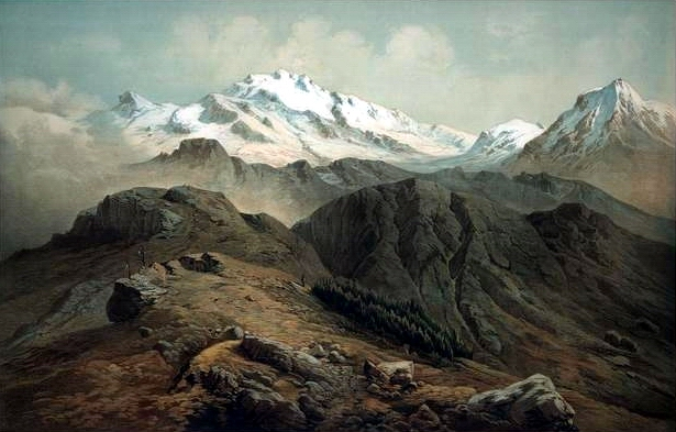 This image is taken from the book "Results of a scientific mission to India and high Asia - Atlas Part II." By Hermann, Albert and Robert von Schlagintweit-Sakünlünski,on an expedition made between the years 1854 and 1857, and published in 1861. So the book is well out of copyright. John Hill